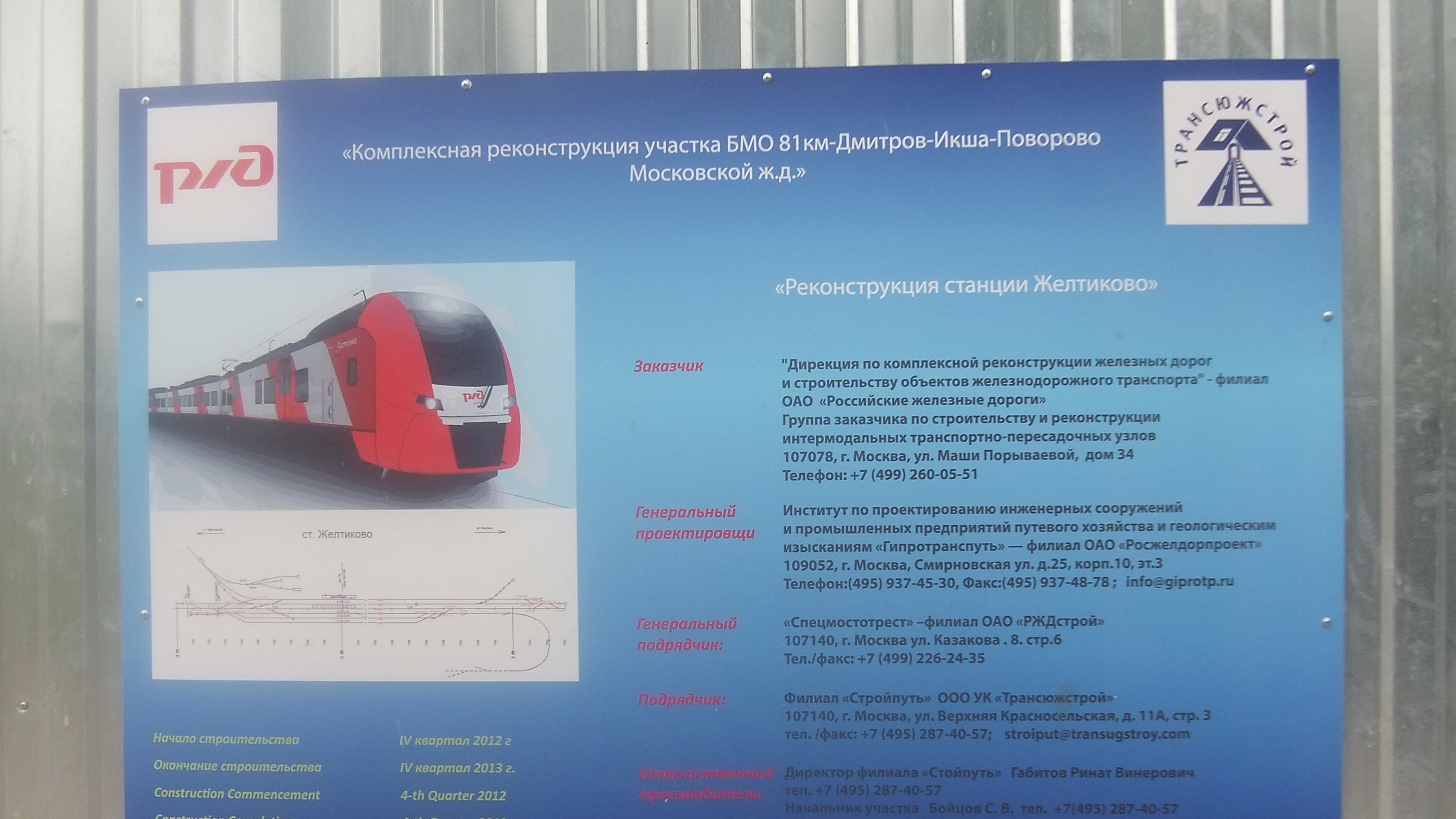 Zhyoltikovo railway station. Reconstruction poster.